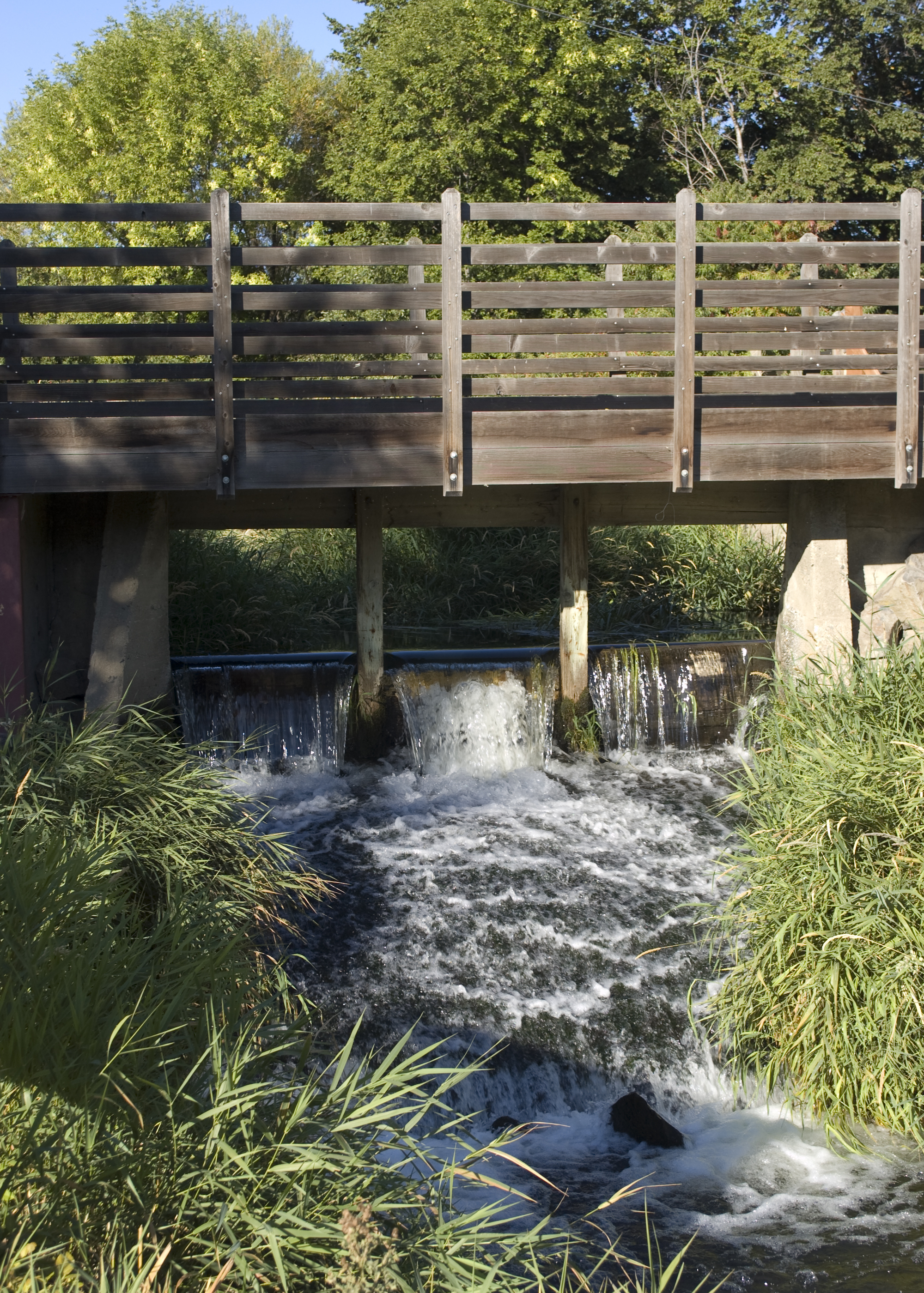 Weir at the Thorp Gristmill in Thorp, WA